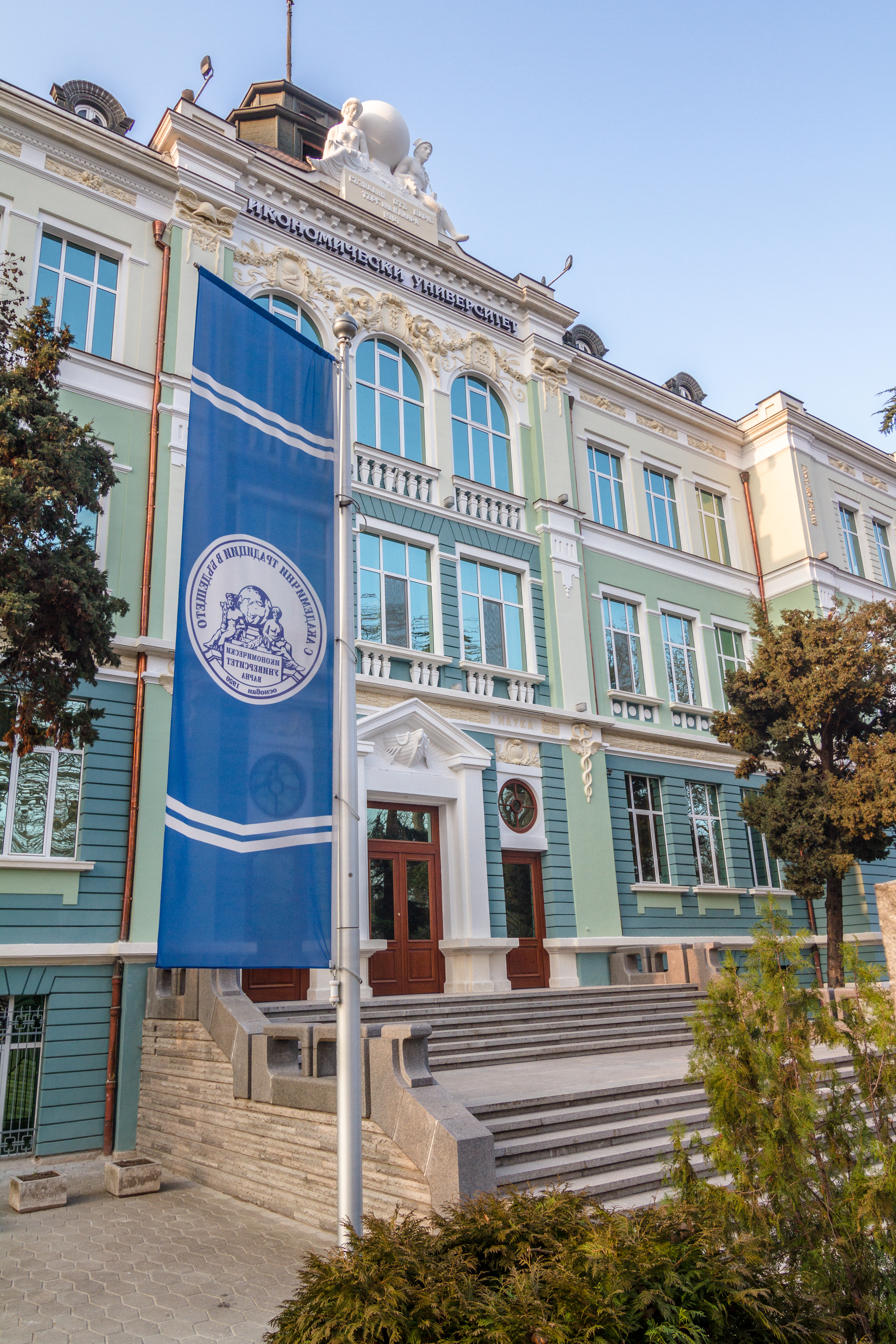 UE-Varna main entrance.